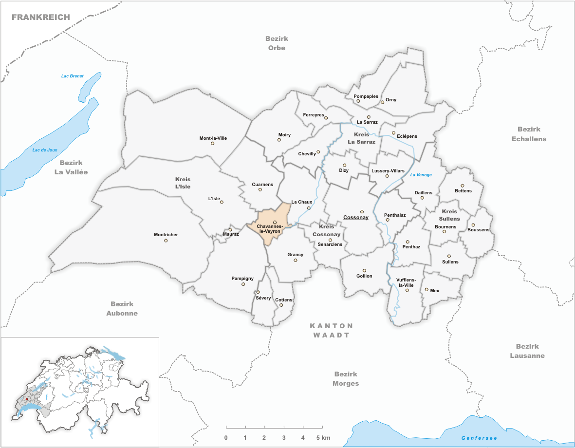 Municipality Chavannes-le-Veyron